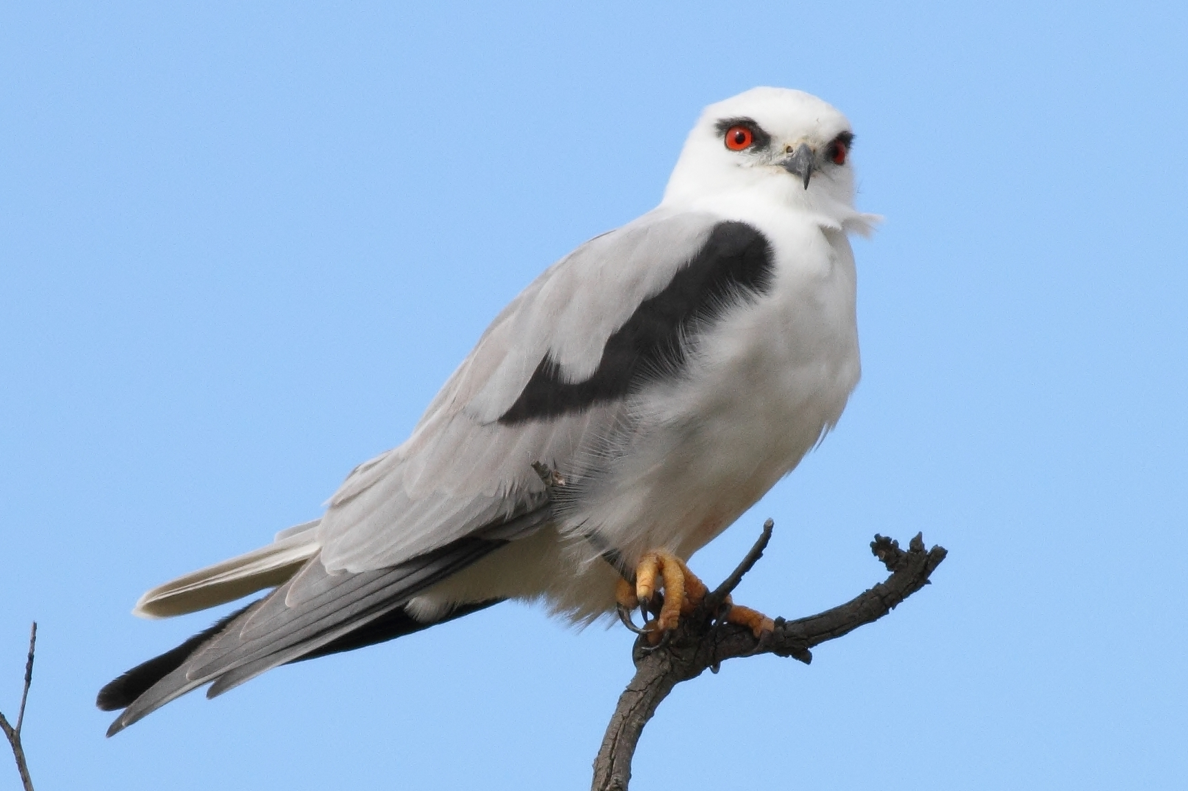 A Black-shouldered Kite at Royal Botanic Gardens, Cranbourne, Melbourne, Victoria, Australia.